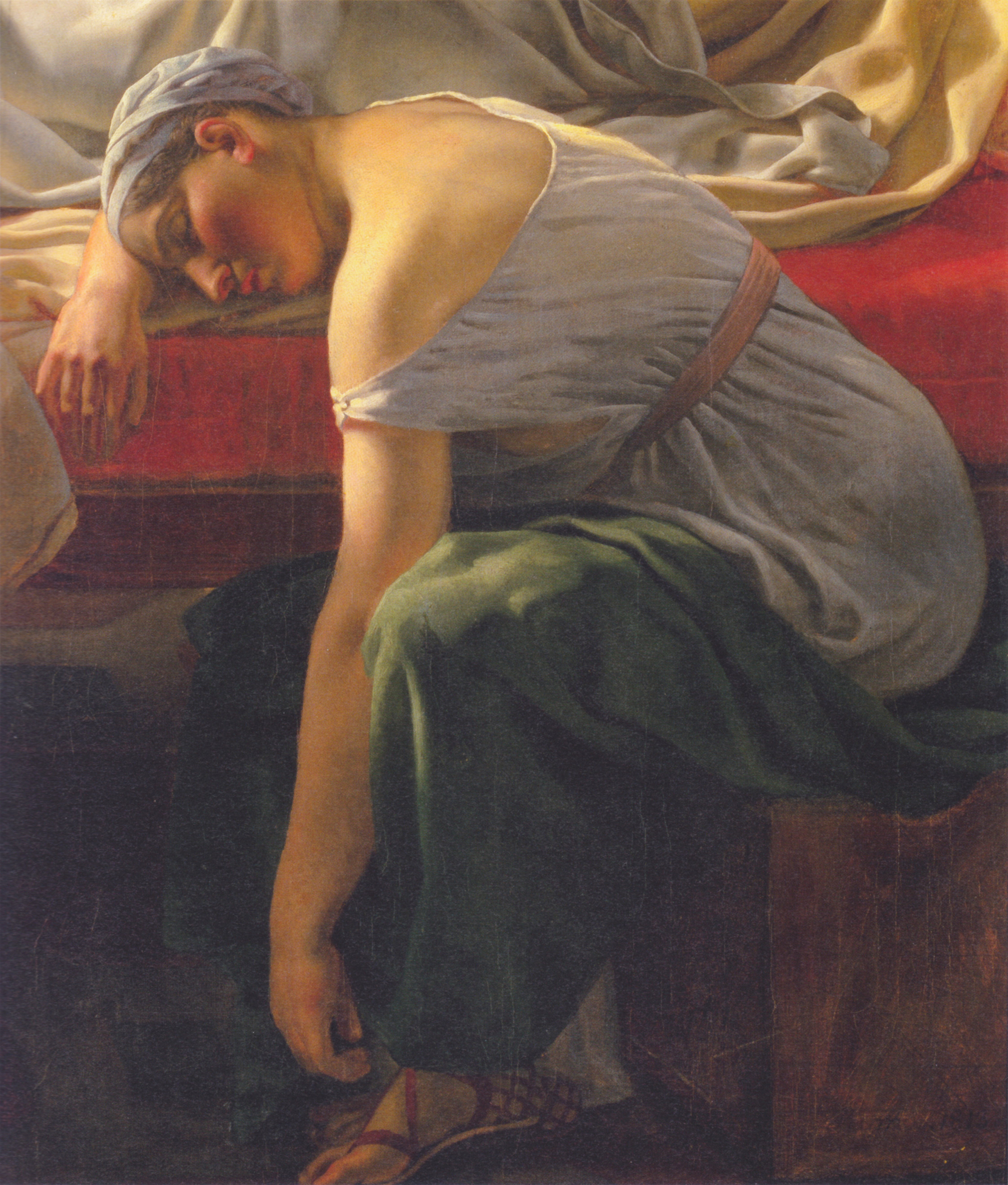 A sleeping woman in antique garment. The wet nurse of Alcyone. The painting was originally a part of a larger painting depicting the dream of Alcyone, but Eckersberg split it up, on Bertel Thorvaldsen's advice.